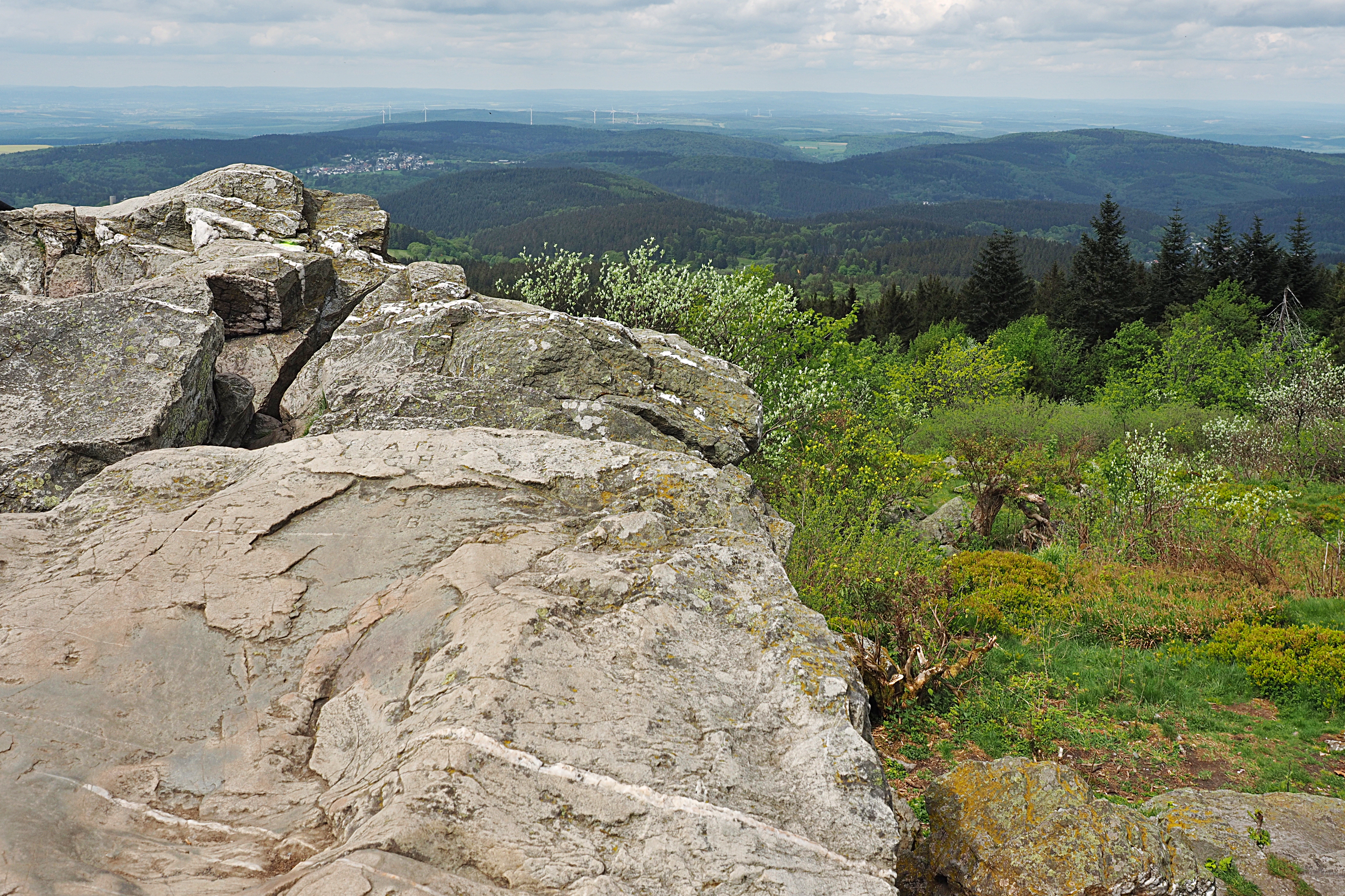 View from Brunhildis rock, Großer Feldberg, Germany, to the north